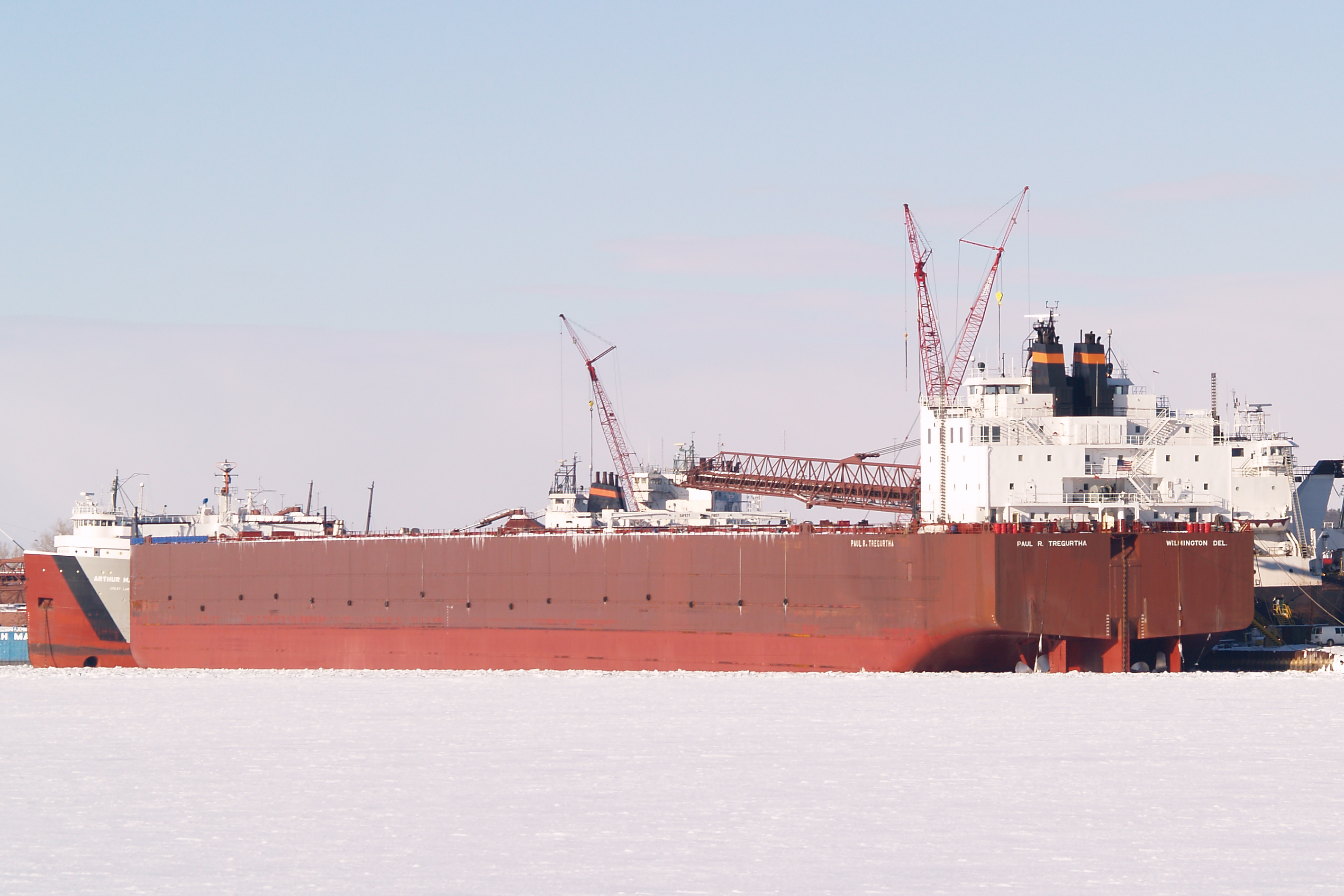 Picture of Paul R. Tregurtha Ore carrier William I. Harter taken with an Olympus EVOLT E-500 camera in Sturgeon Bay, Wisconsin More information about this ship can be found at SS Arthur M. Anderson can be seen in the background (the ship with the black and white stripe.)